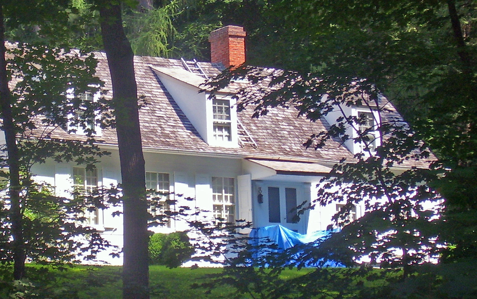 Mandeville House, oldest house in Garrison, NY, USA. Headquarters of Gen. Israel Putnam for a time during the Revolutionary War, later the last residence of Richard Upjohn